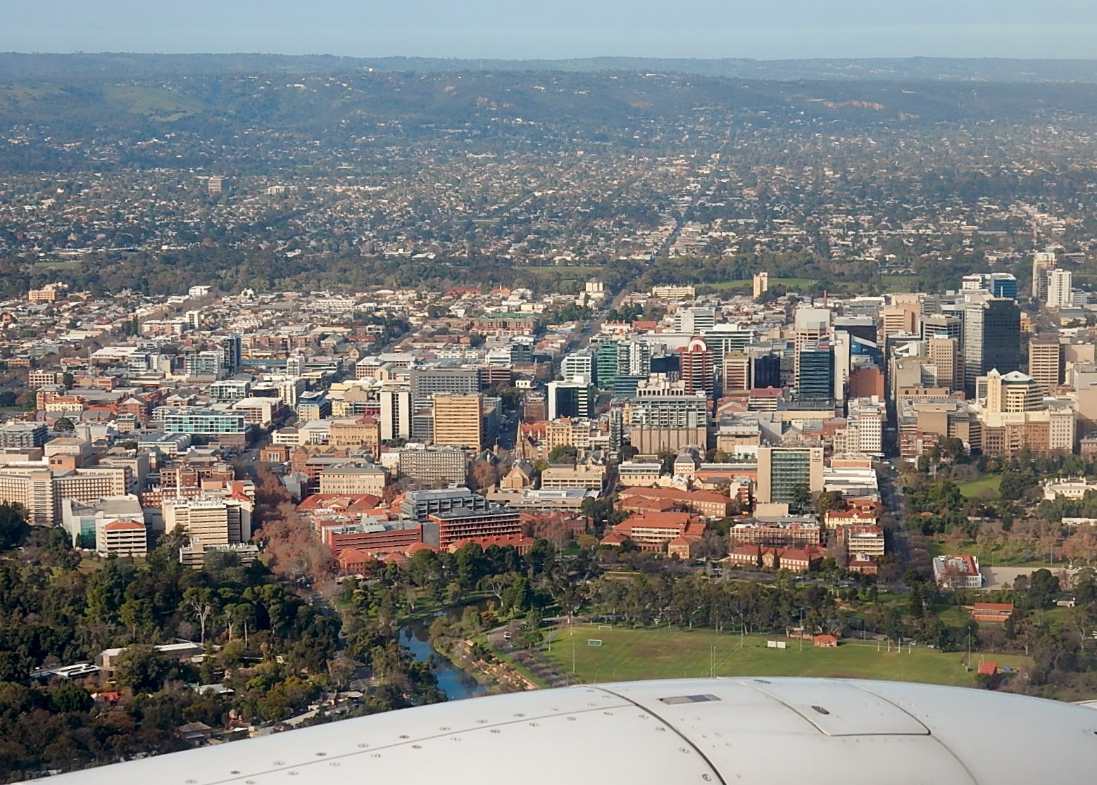 Adelaide CBD and Plains